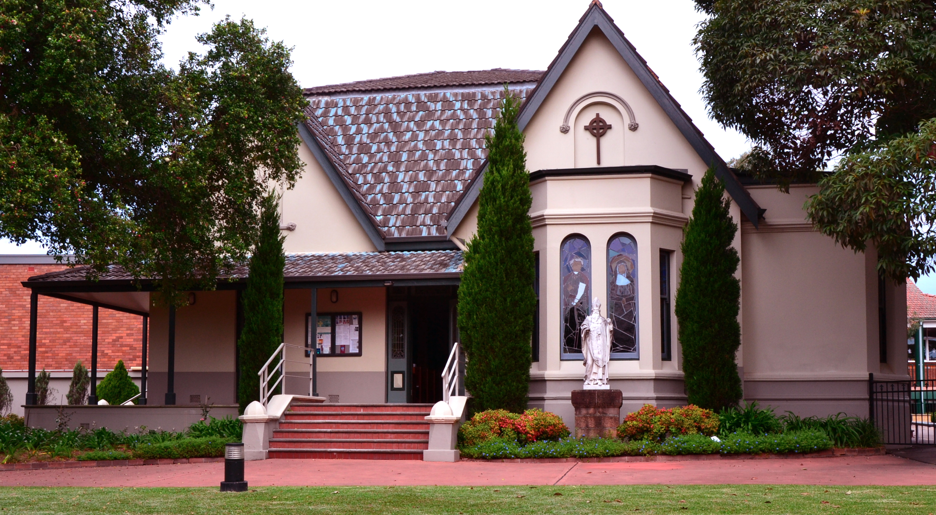 St Patricks Church, Summer Hill, Sydney